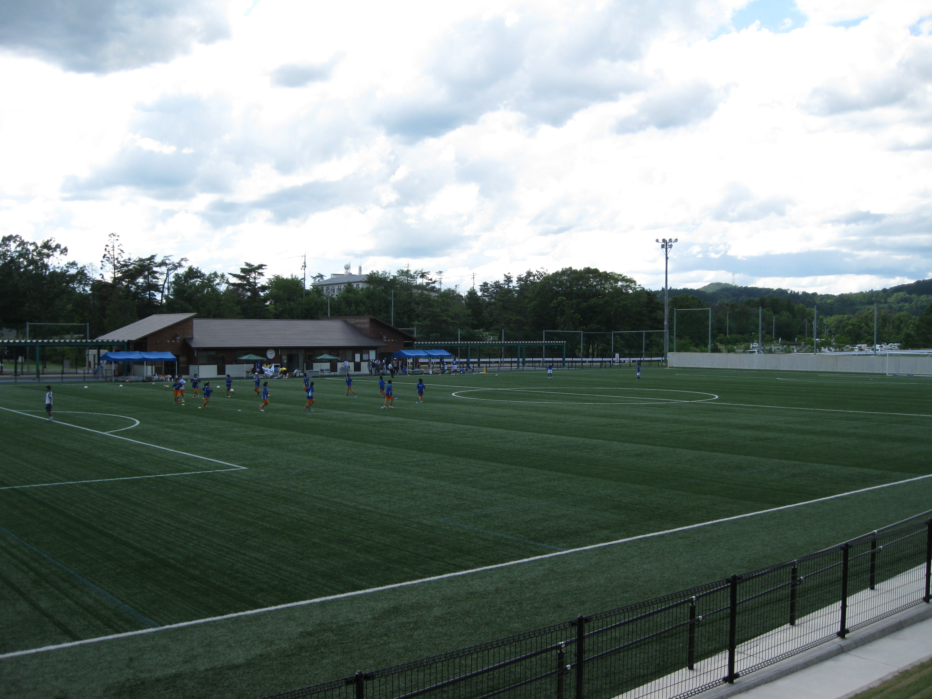 Multi-purpose field in Koubara Sports Park (Takahashi, Okayama, Japan)